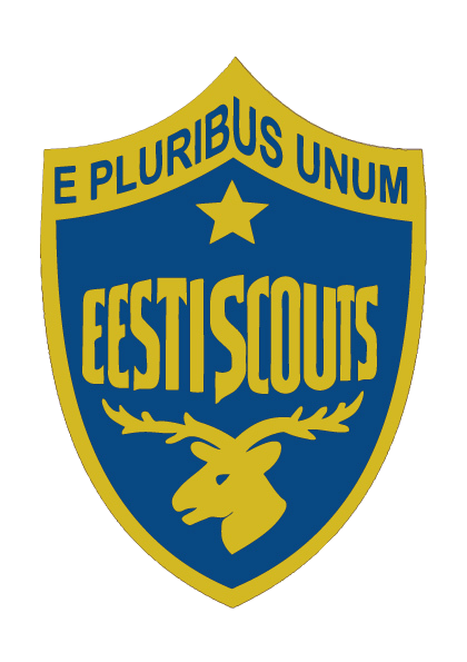 Emblem of the Scouts Battalion.